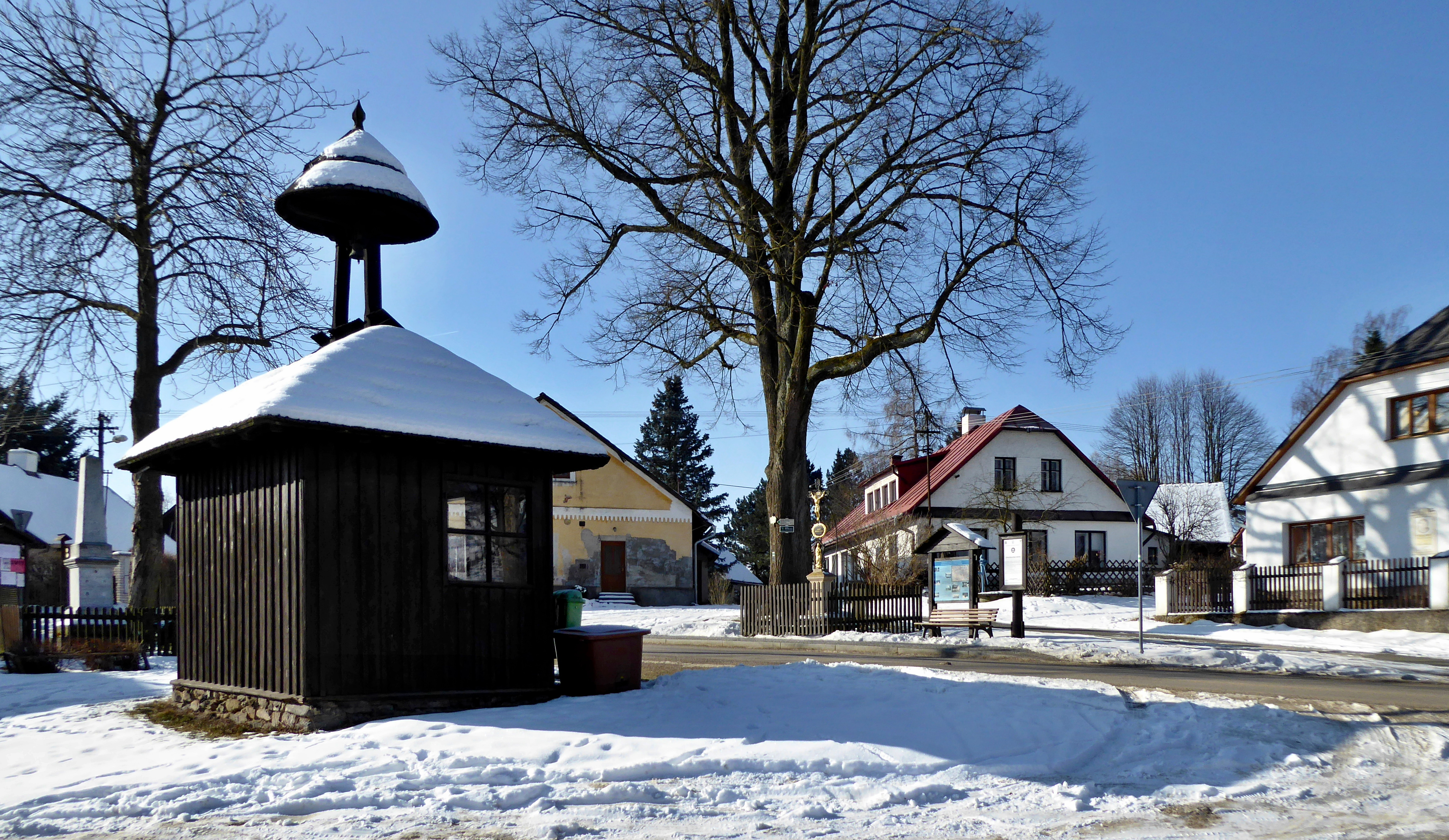 "Dřevíkovská" village green, a wooden bell tower, also fulfills the function of a waiting room at the bus stop. In the photo on left the memorial to the victims of the wars 1914-1918 and 1939-1945 and on right the house with a memorial plaque dedicated to teacher and writer, to Czech patriot "František Hrnčíř" (1860–1928). On a tree (linden) above the road is a signpost of the tourist route of the Czech Tourists Club, also a small sacred structure, the so-called God's torture and the information board on the Homeland trail the Region of Chrudimka River (point 10 - "Dřevíkovská" village green). "Dřevíkov" is settlement locality of the type of small hamlet and the name of the cadastral area with an area of 226.58 ha with a range of approximately 534 to 579 meters above sea level in the landscape area of the Iron Mountains, within the administrative is part municipality of Vysočina in the district of Chrudim belonging to the Pardubice Region in the territory of the Czech Republic. Photo location: Czechia, Pardubice Region, municipality Vysočina, hamlet of "Dřevíkov", "Stružinecká" knoll hill.